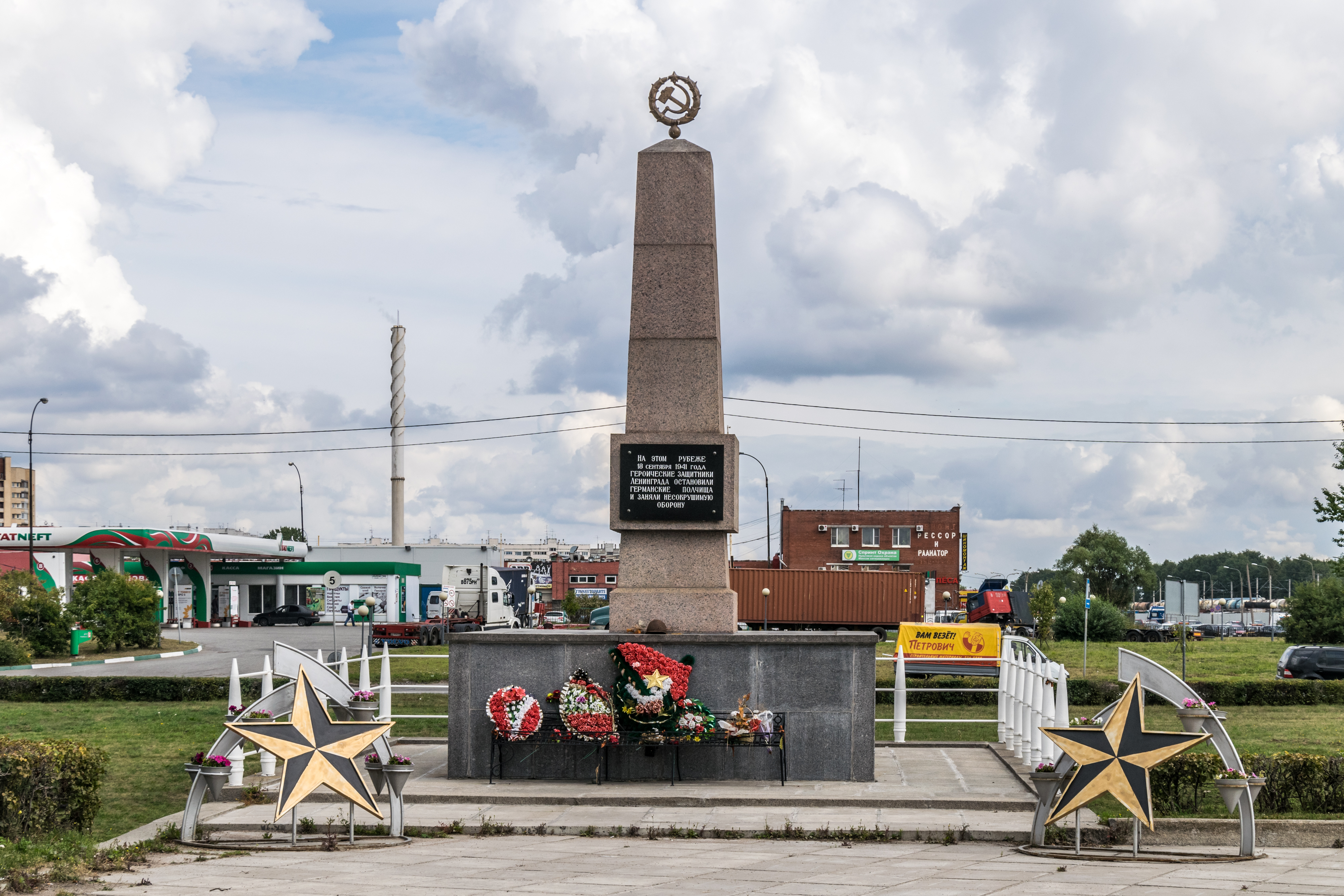 Leningrad Front Line of Defence Memorial in Ligovo, Saint Petersburg